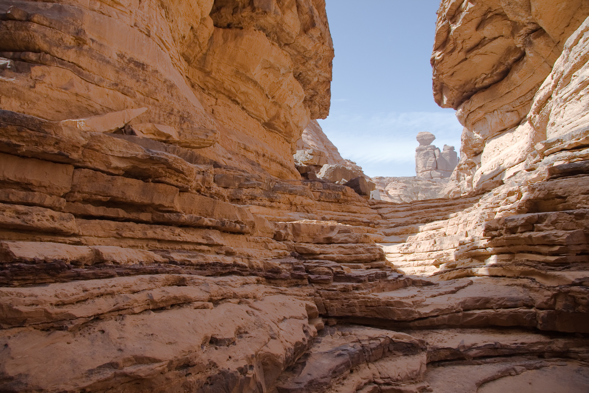 Rock formations in Tadrart Acacus. This area is one of the most arid of the Sahara, located in south western Libya.